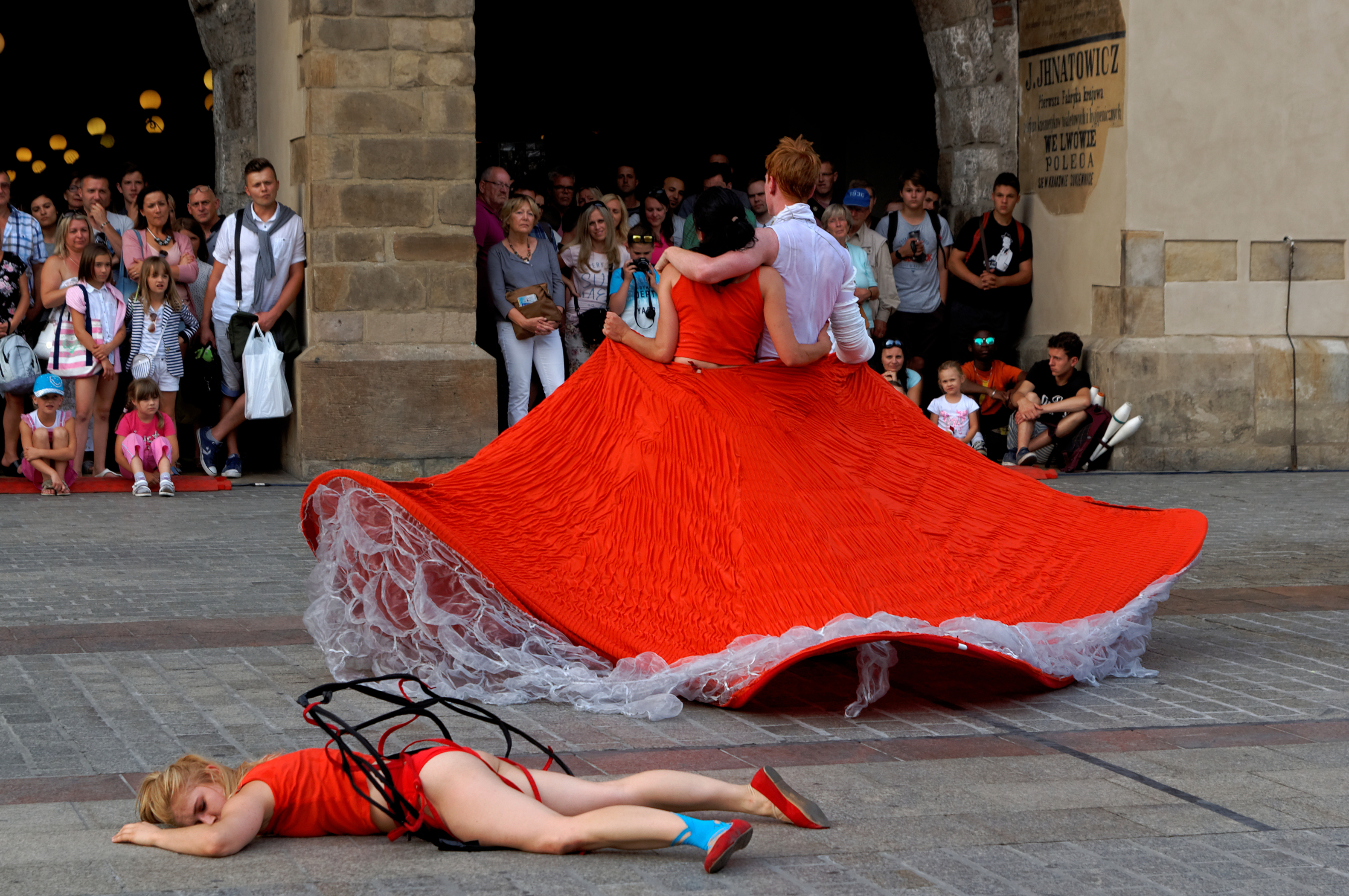 Cracow Dance Theatre in the show "Estra & Andro" at 29. ULICA – The International Festival of Street Theatres in Kraków